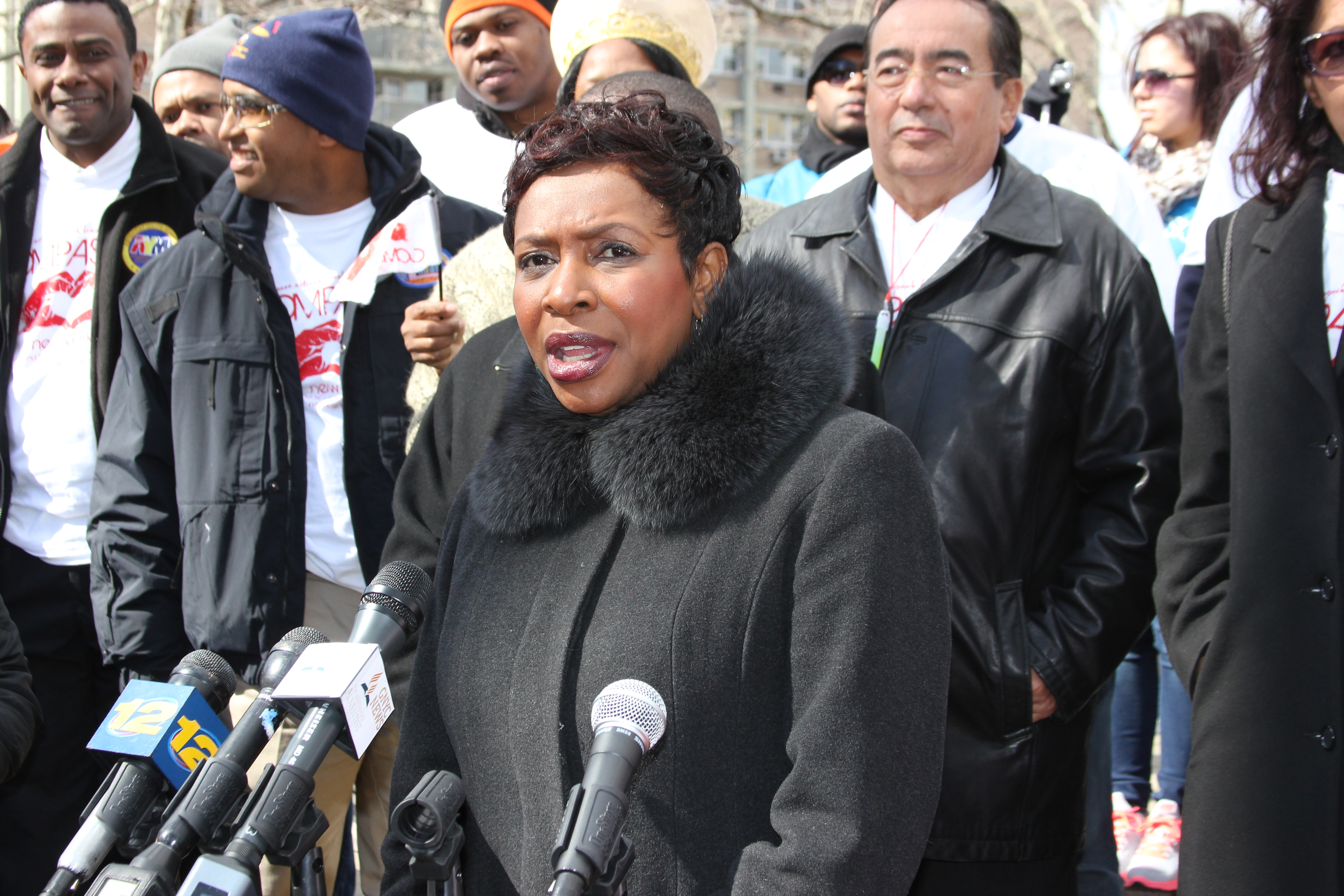 Congresswoman Yvette Clark (D-NY) speaking at a march in Brooklyn against violence.